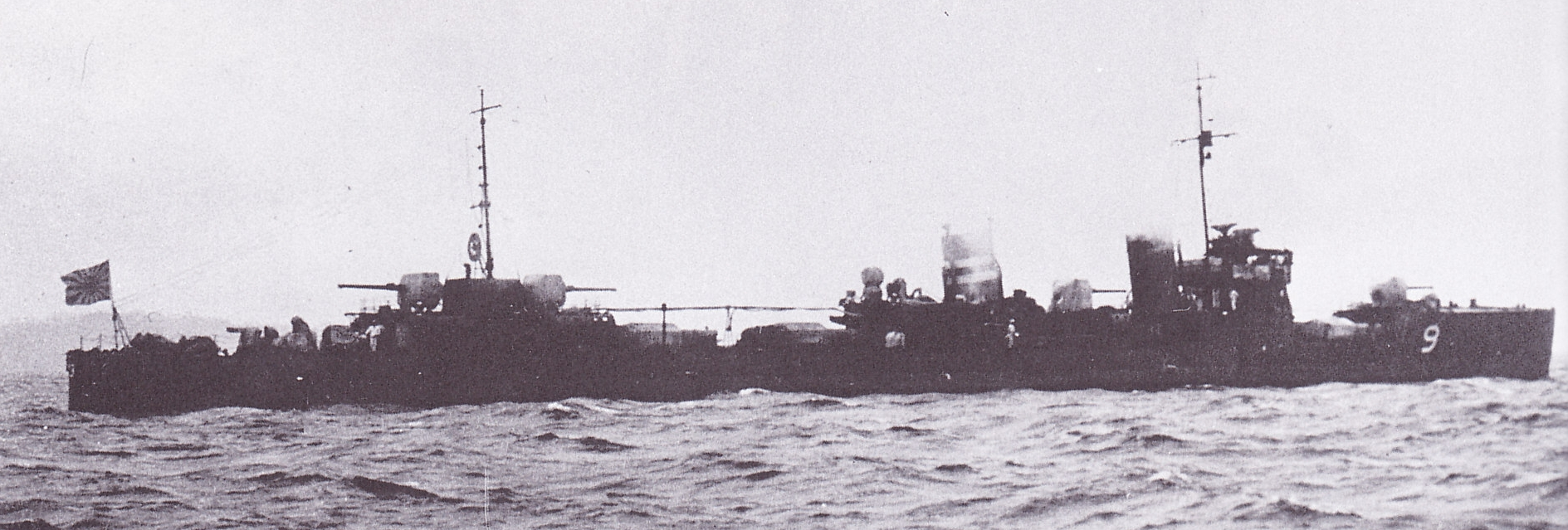 Imperial Japanese Navy destroyer Hatakaze off Mako, circa 1924.